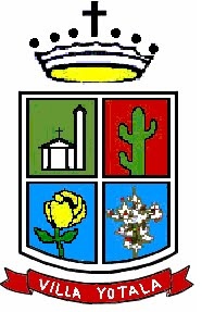 Coat of arms of the Ville of Yotala